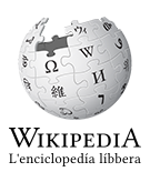 Wikipedia logo 2.0